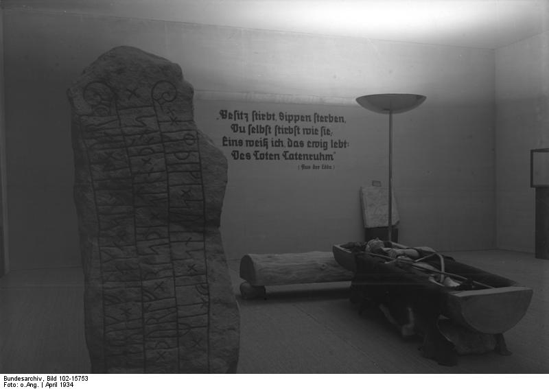 Side A of the Stone of Eric, one of the Hedeby stones, and is listed as DR 1 under Rundata.